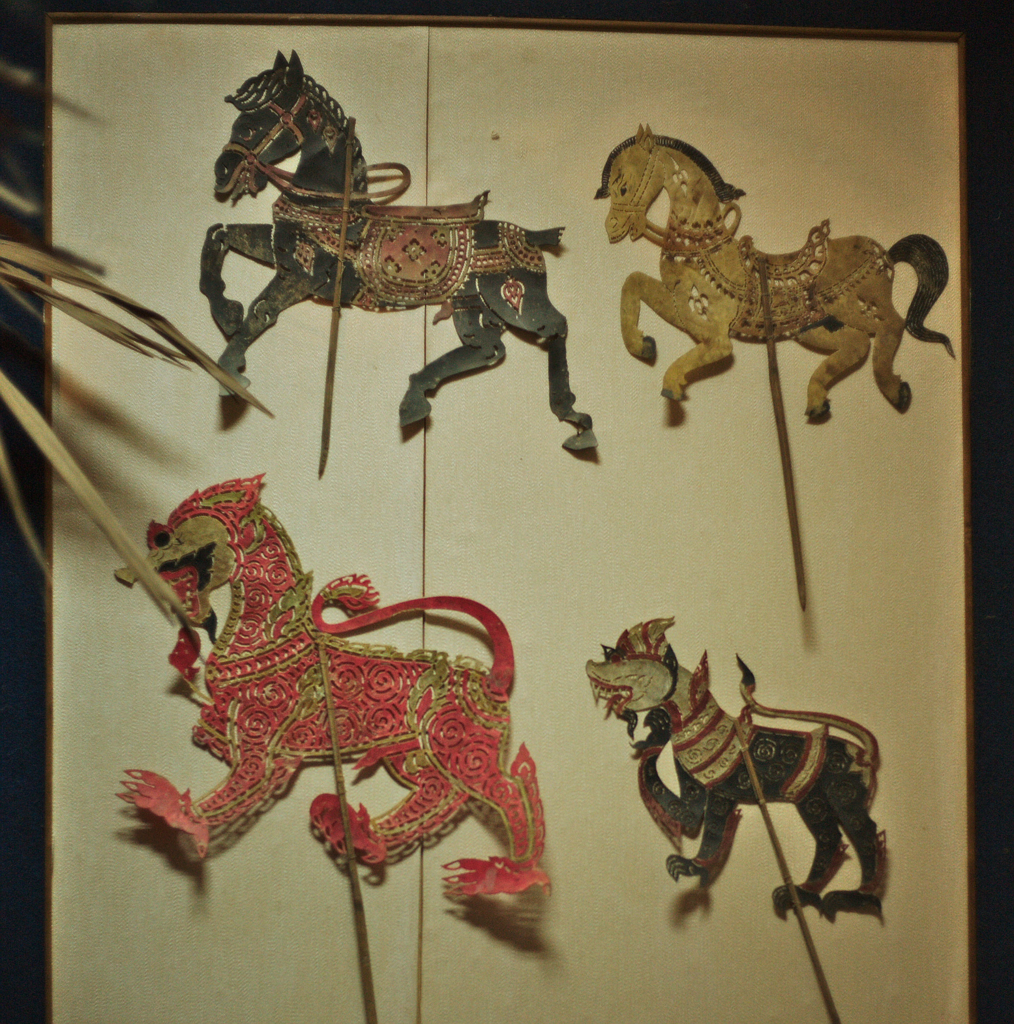 Four example animals (two horses, two lions?) from southern Thailand's Nang Talung shadow puppetry tradition.